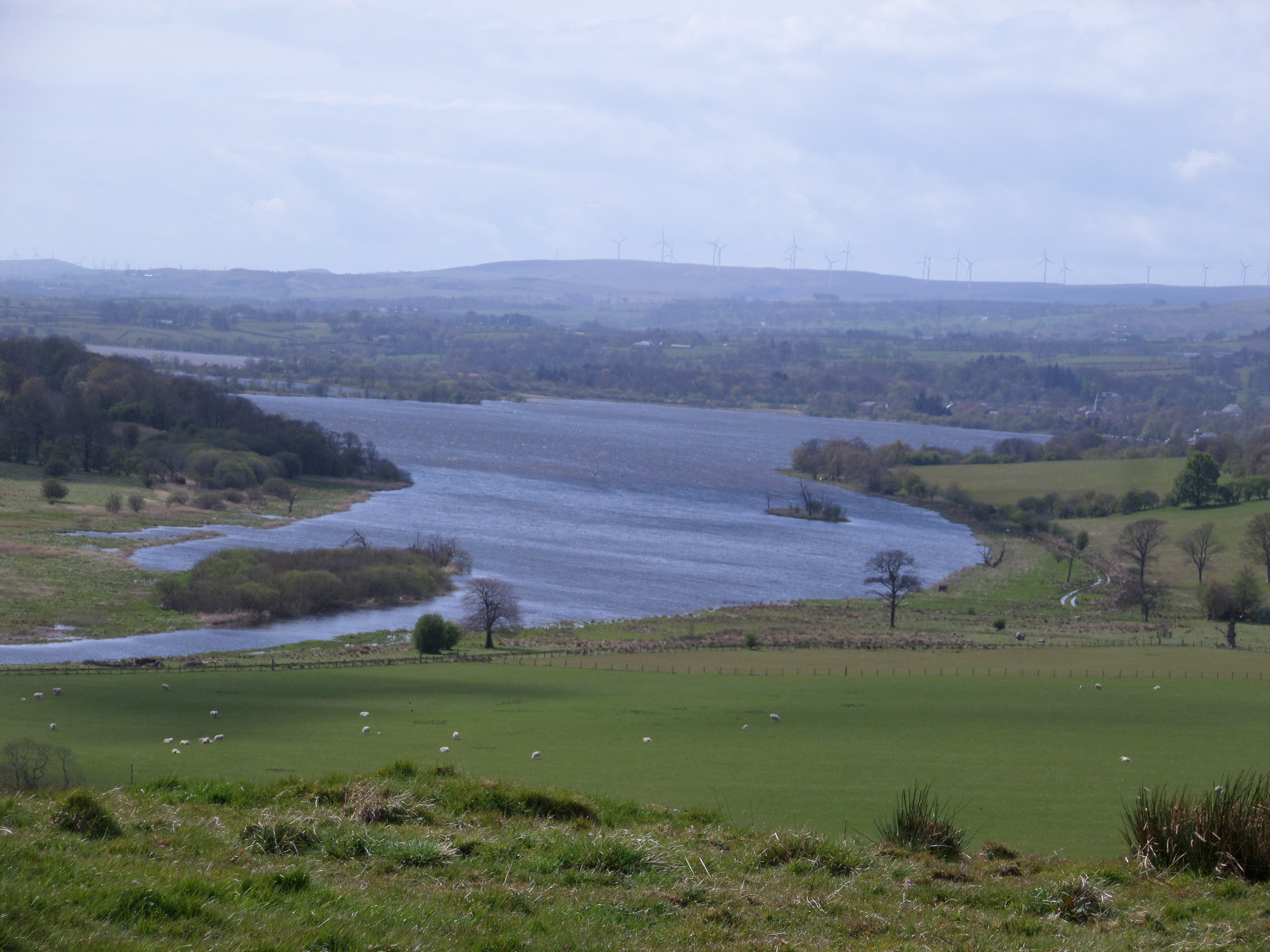 View of Castle Semple Loch from Kenmure Hill's temple, Lochwinnoch, East Renfrewshire, Scotland